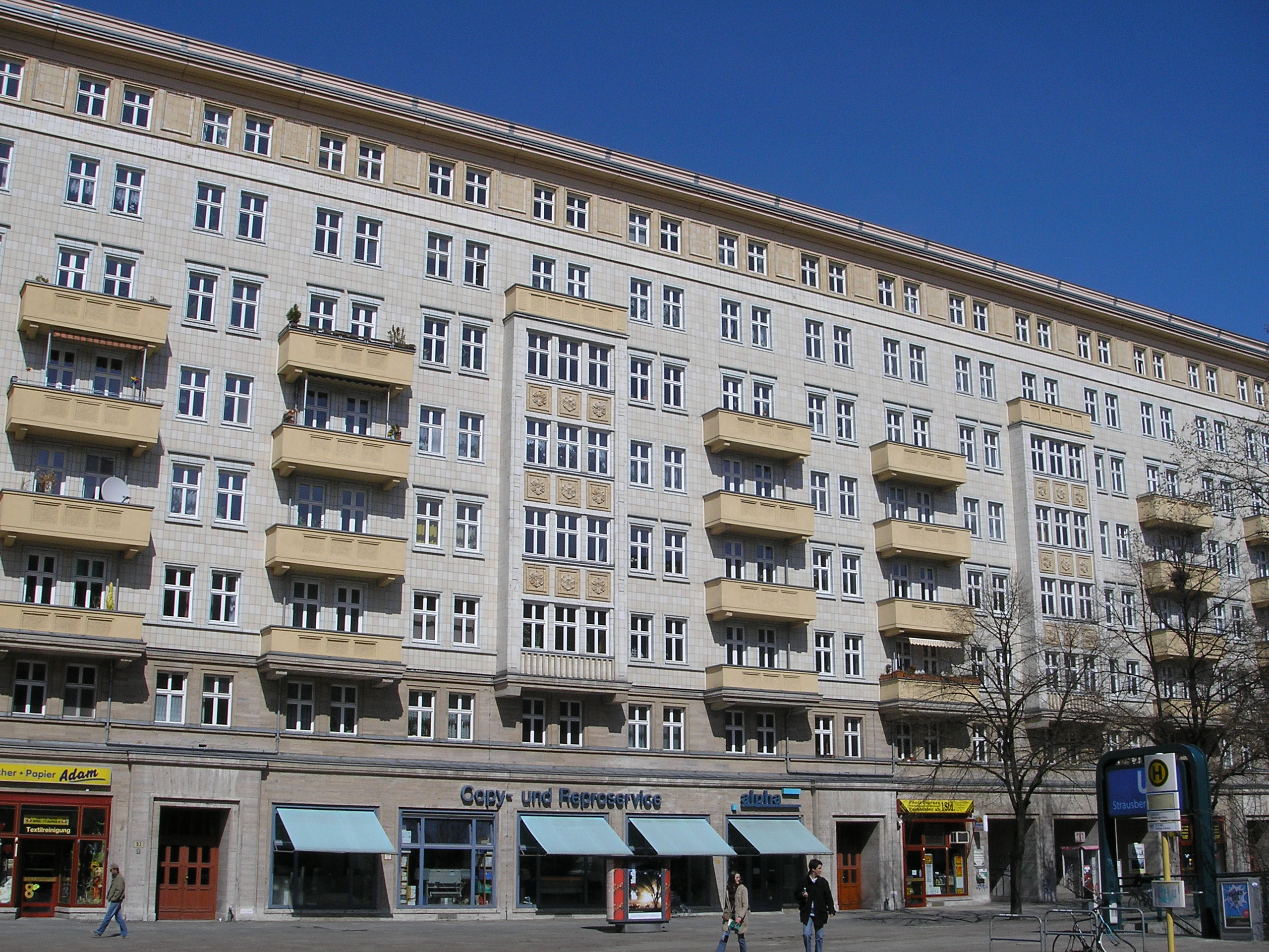 View on Block B North on Karl-Marx-Allee in Berlin. Architect Egon Hartmann. Constructed in 1952.